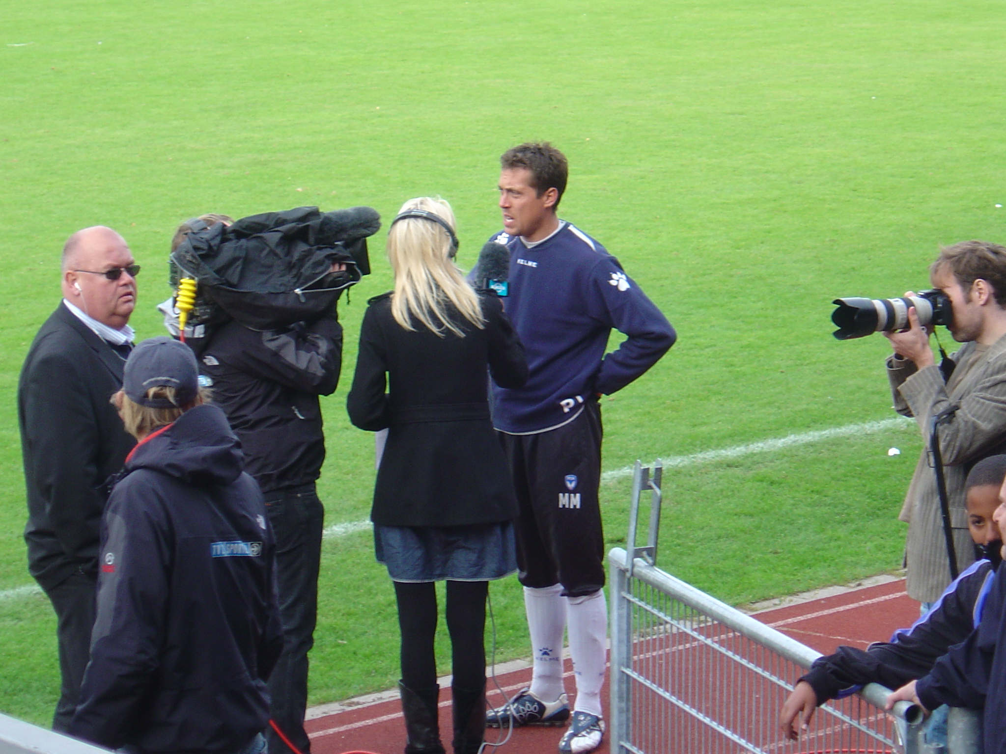 Football coach Michael Madsen for the Danish football club FC Amager being interviewed by TV 2 Sport reporter Tina Müller after the Danish Cup home match on 28 September 2008 against Danish Superliga club Odense Boldklub, that won the game 3-1.